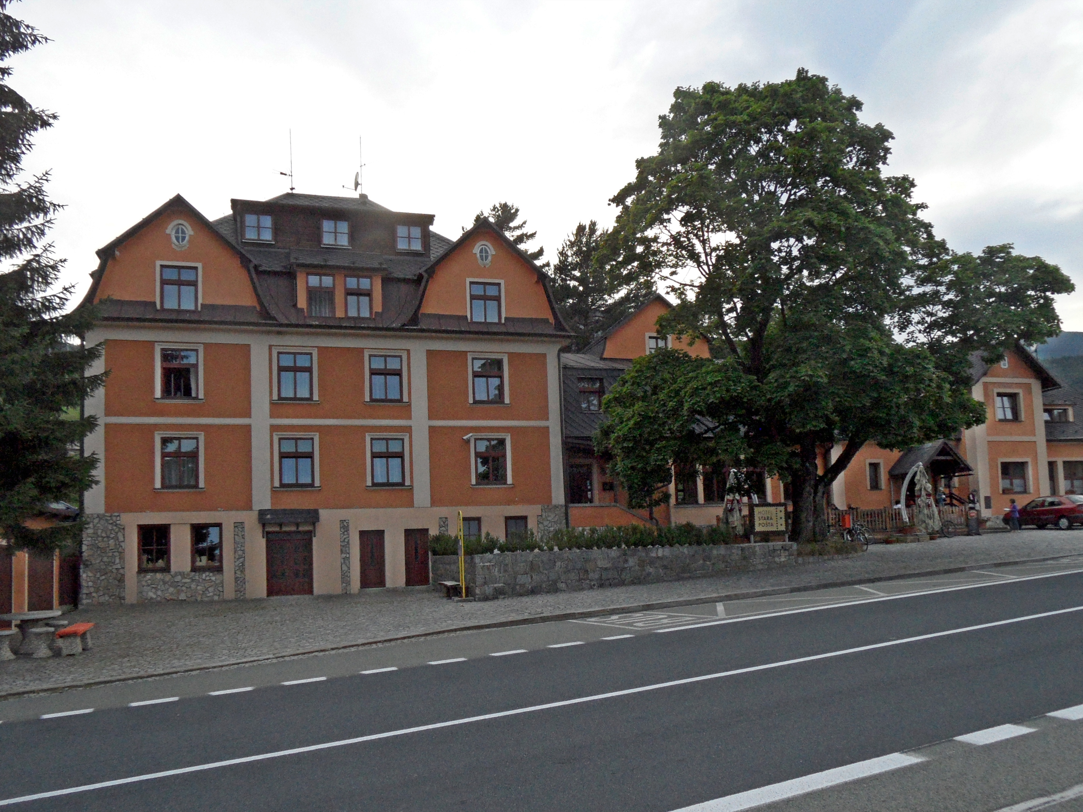 Filipovice (Bělá pod Pradědem) A. Stará pošta: Hotel and Restaurant. Jeseník District, the Czech Republic.